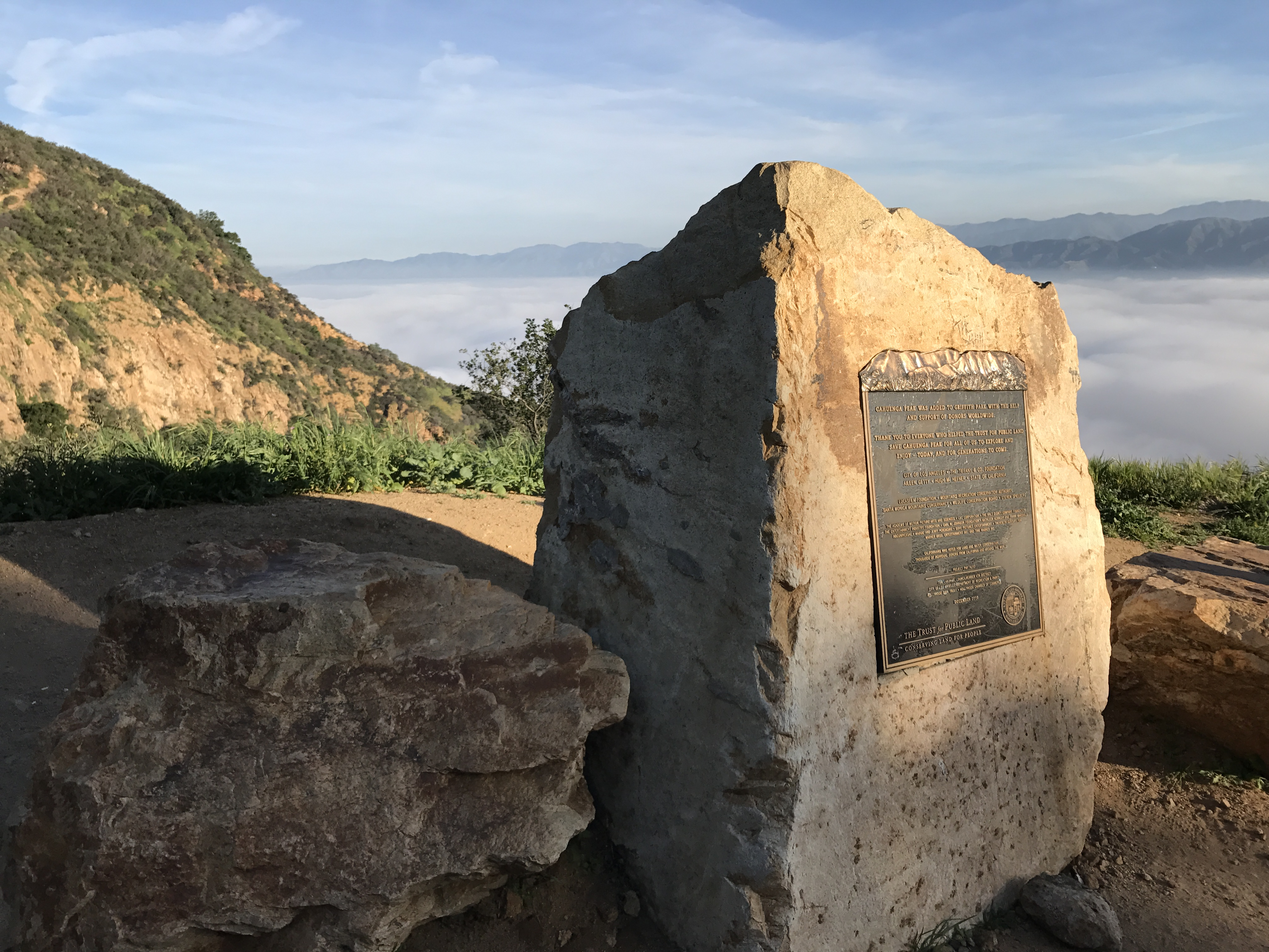 Monument place by the Trust for Public Land in December 2010 thanking donors worldwide for the addition of Cahuenga Peak to Griffith Park.